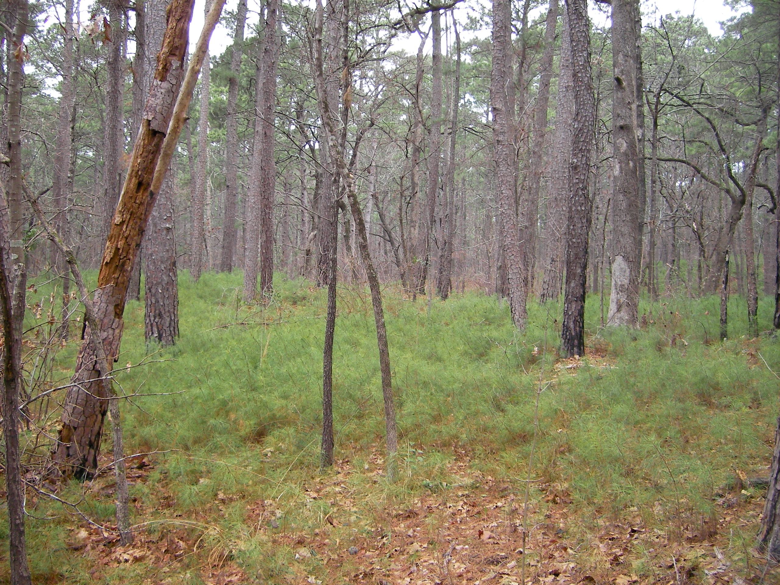 Pine forest at Tyler State Park — in the Piney Woods region, east Texas.